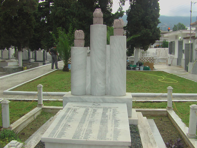 Holocaust memorial in volos greece. Credit:Courtesy of Arie Darzi to memorialize the Jewish community in Greece